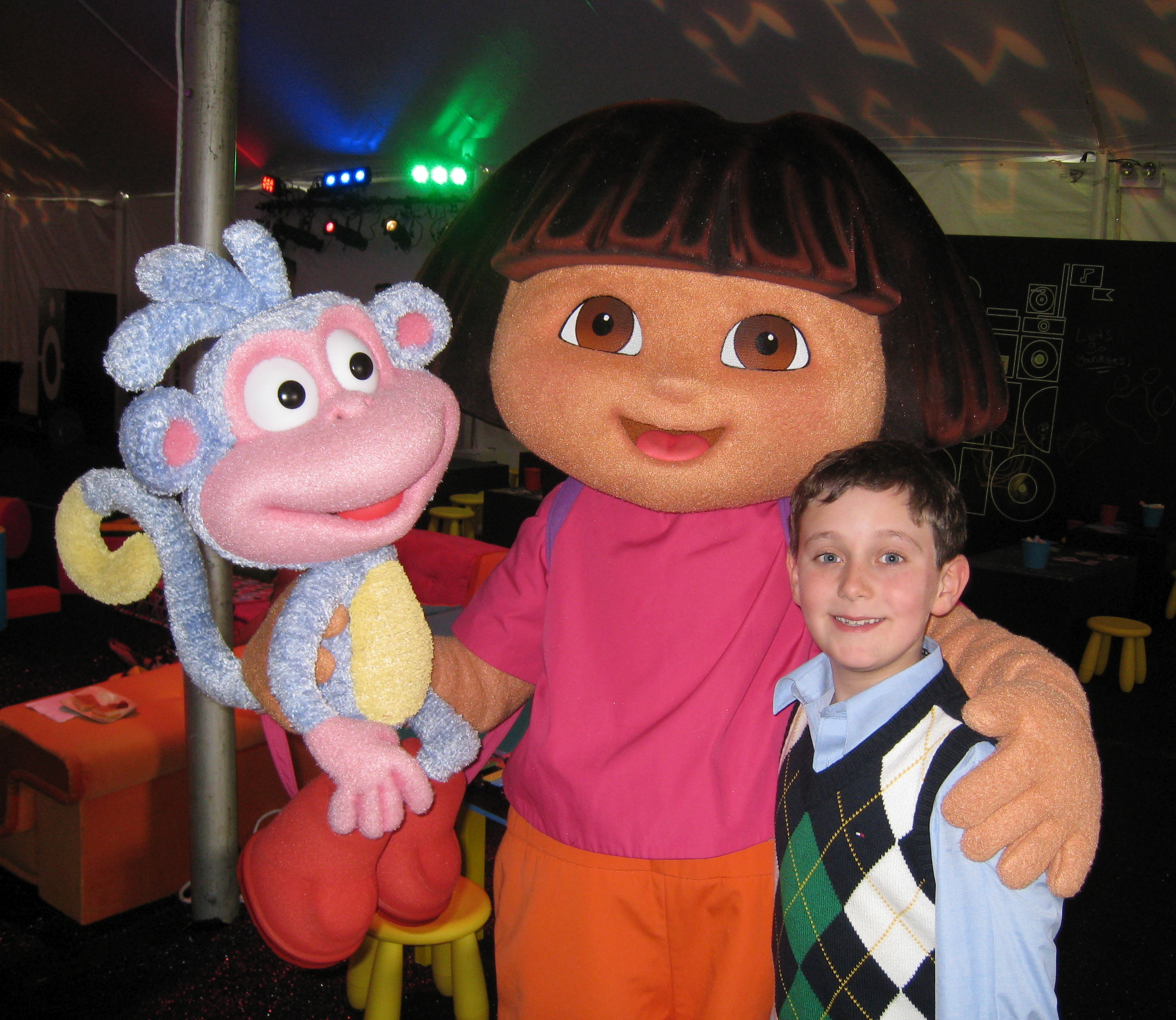 This is a photo of Regan Mizrahi with the characters Dora and Boots from Nickelodeon's Dora The Explorer